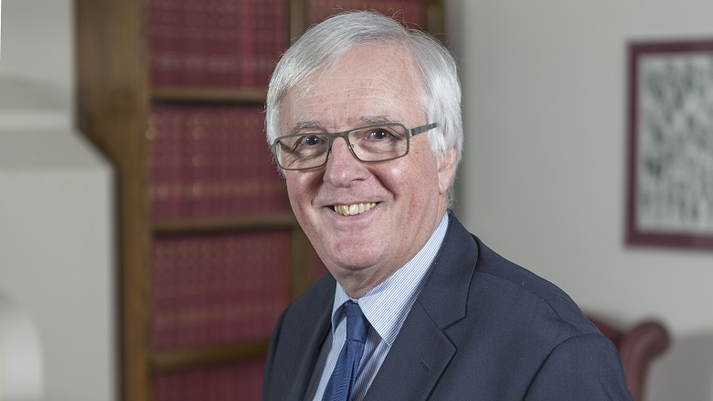 Lord Shipley